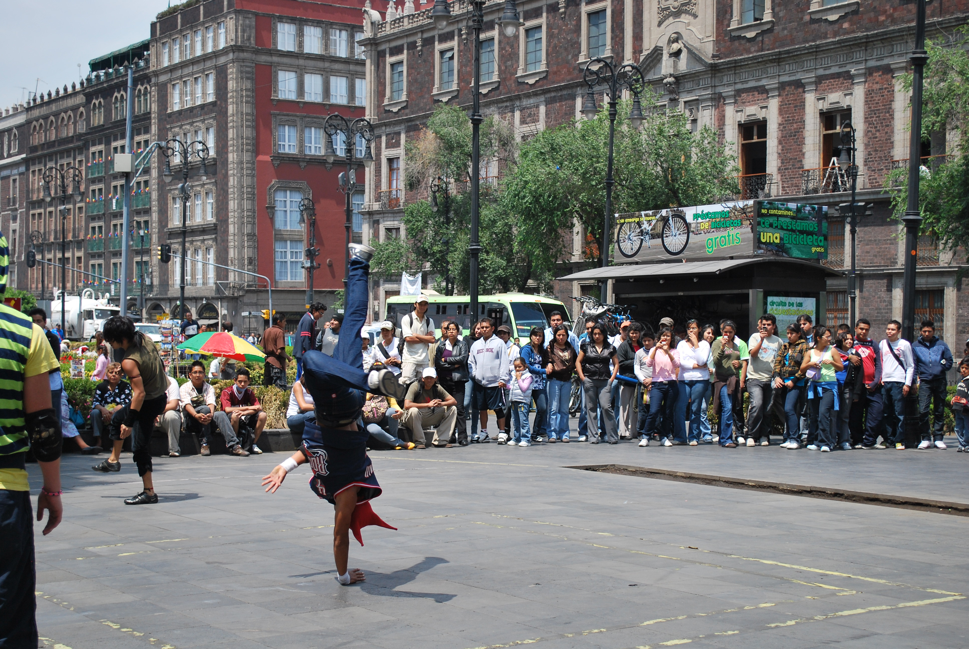 Breakdancers performing on west side of Mexico City Catedral in the historic downtown